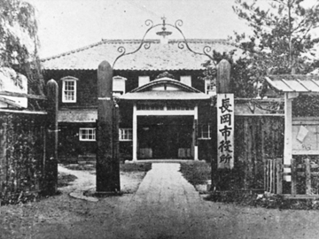 Nagaoka City Office, 1906-1921